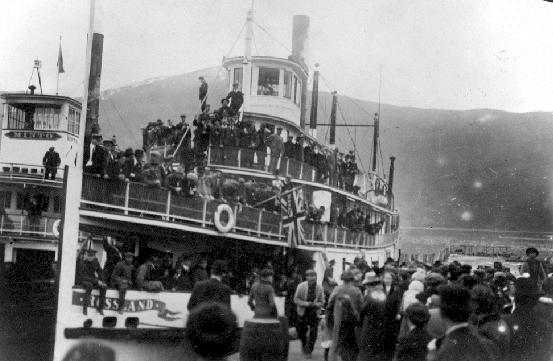 Troops departing for Great War from Central Kootenay Region of British Columbia aboard sternwheeler Rossland, ca 1915. Steamer Minto is alongside.